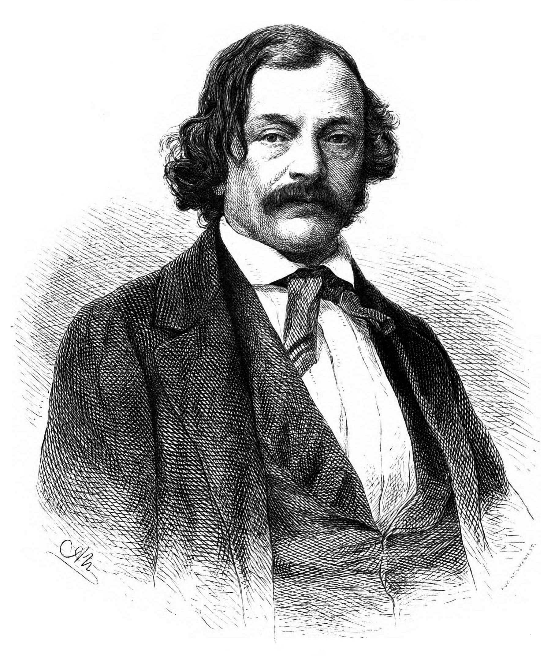 caption: "Hermann Marggraff."